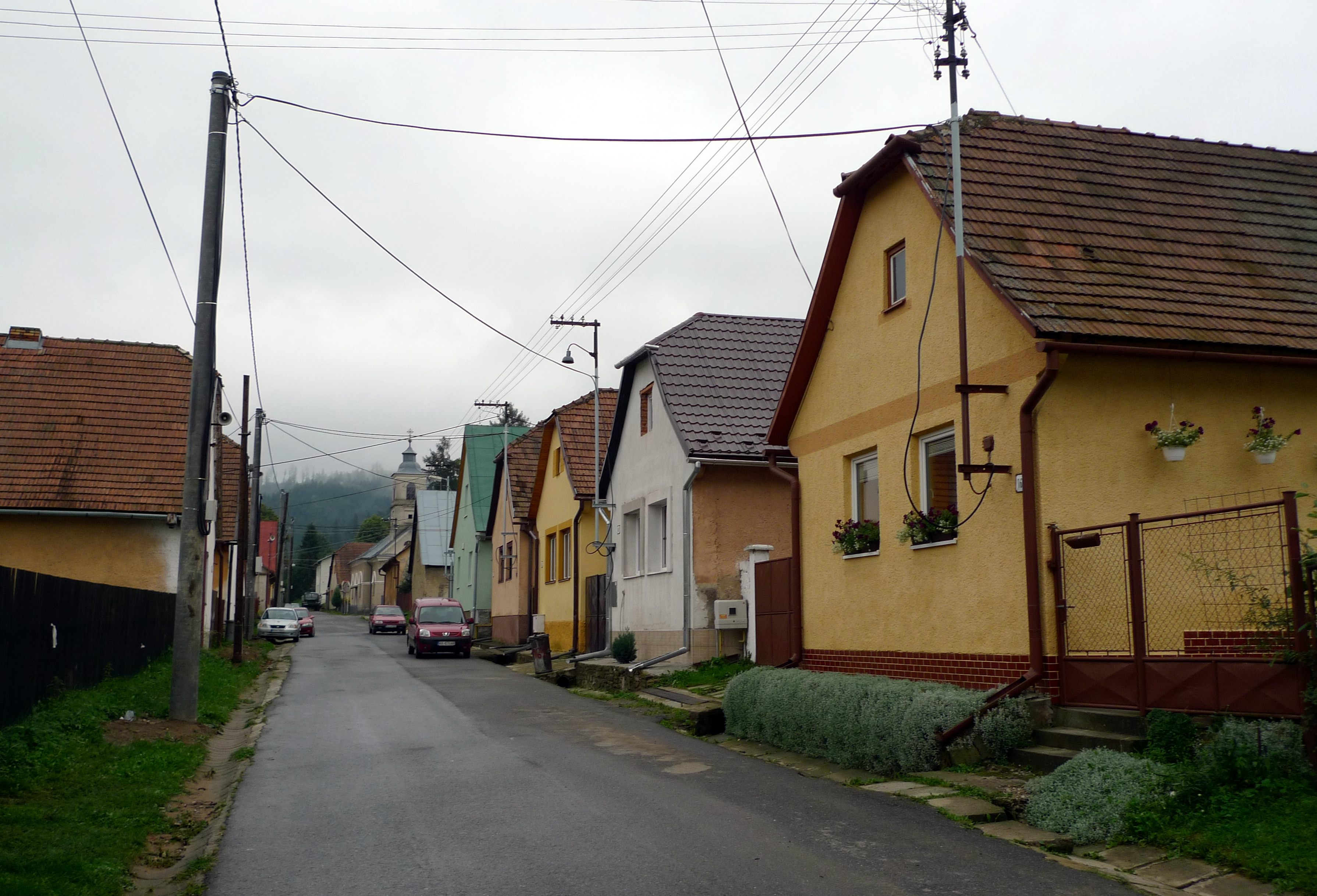 Ihľany - street in this slovak village Česky: Ihľany - ulice v této slovenské vesnici